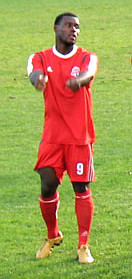 Allando Matheson on August 7, 2010 in a match involving TFC Academy vs Toronto Croatia.